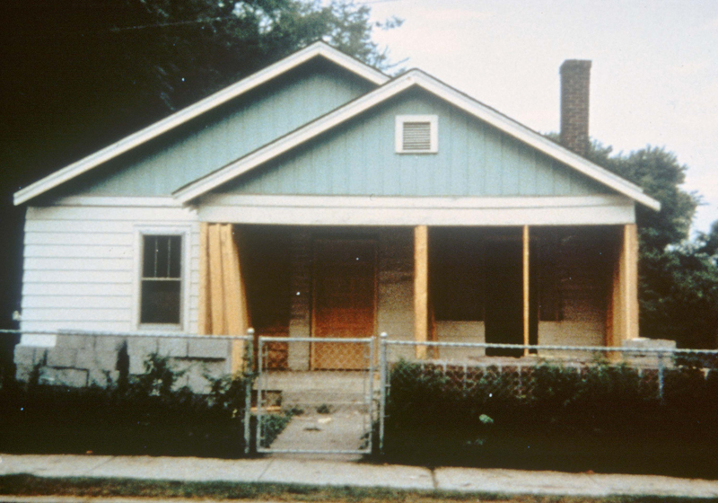 This is a picture of HCA's first office in Nashville, TN.